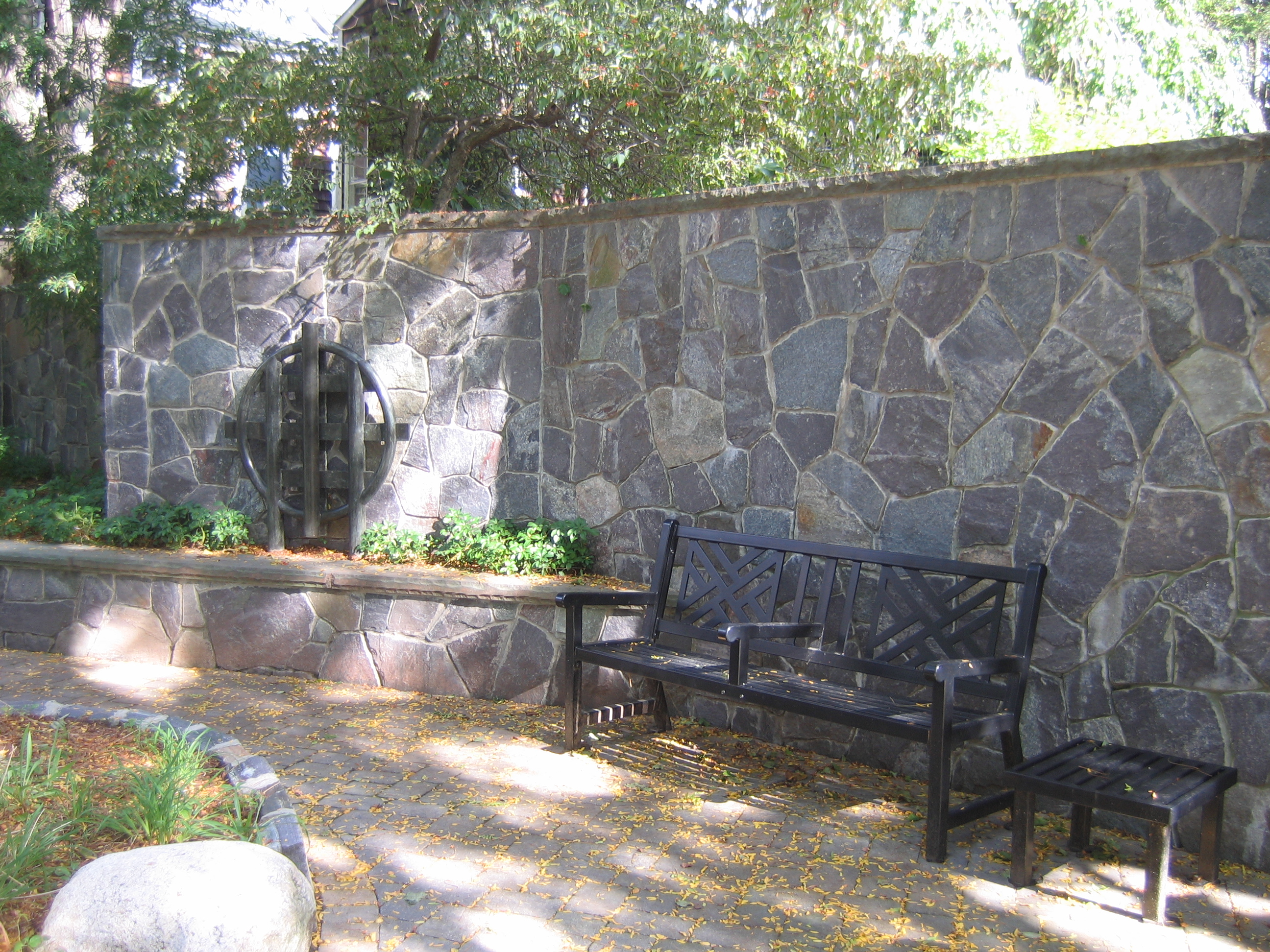 Public park bench and decorations